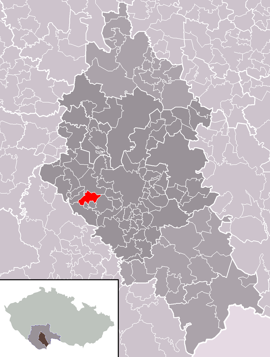 Location of Lipí municipality within České Budějovice District and administrative area of České Budějovice as a Municipality with Extended Competence.